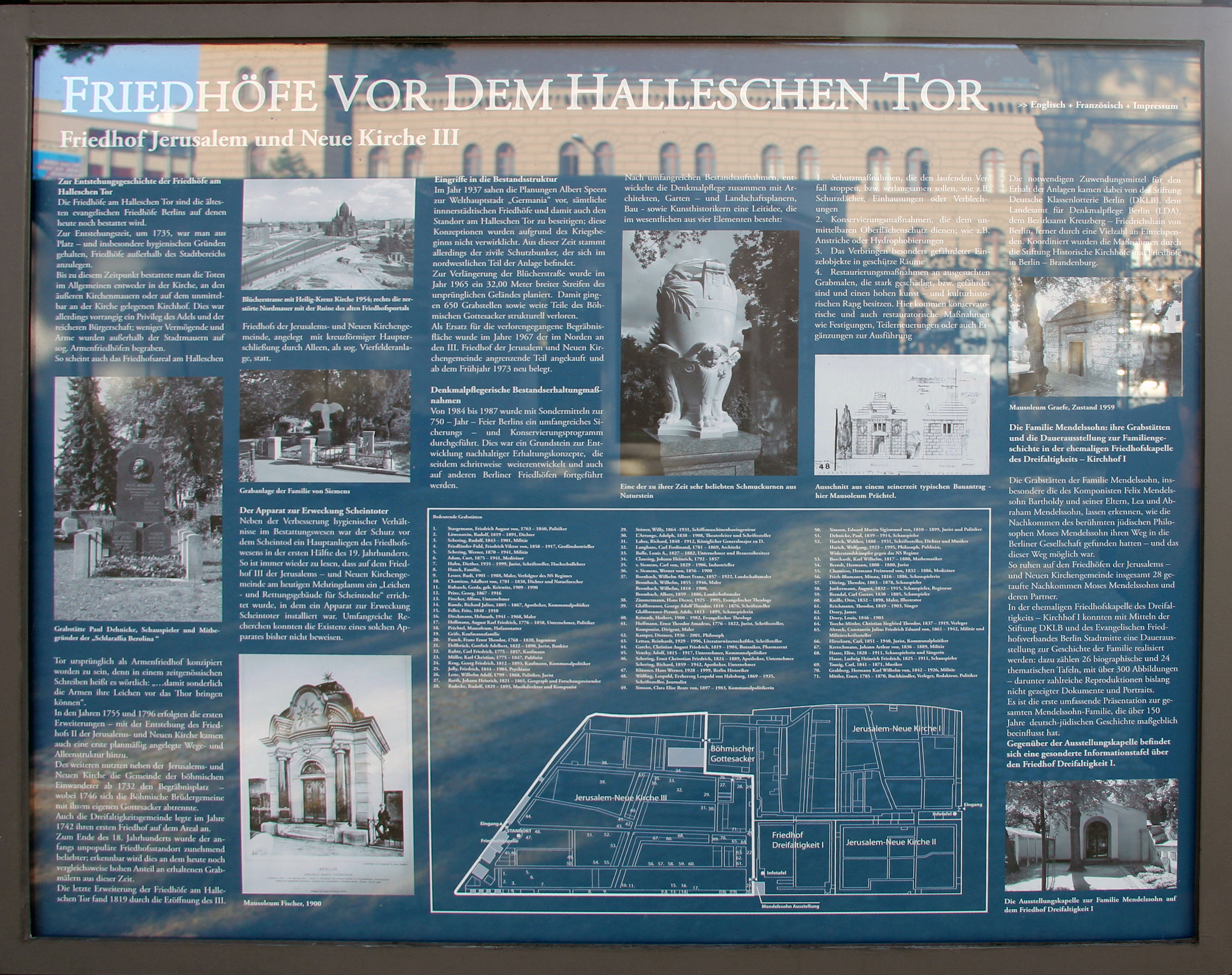 Memorial plaque, Friedhöfe vor dem Halleschen Tor, Mehringdamm 21, Berlin-Kreuzberg, Deutschland